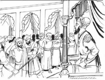 aacharya gopaldas swami